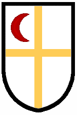 Coat of arms of Crusader principality of Antioch.